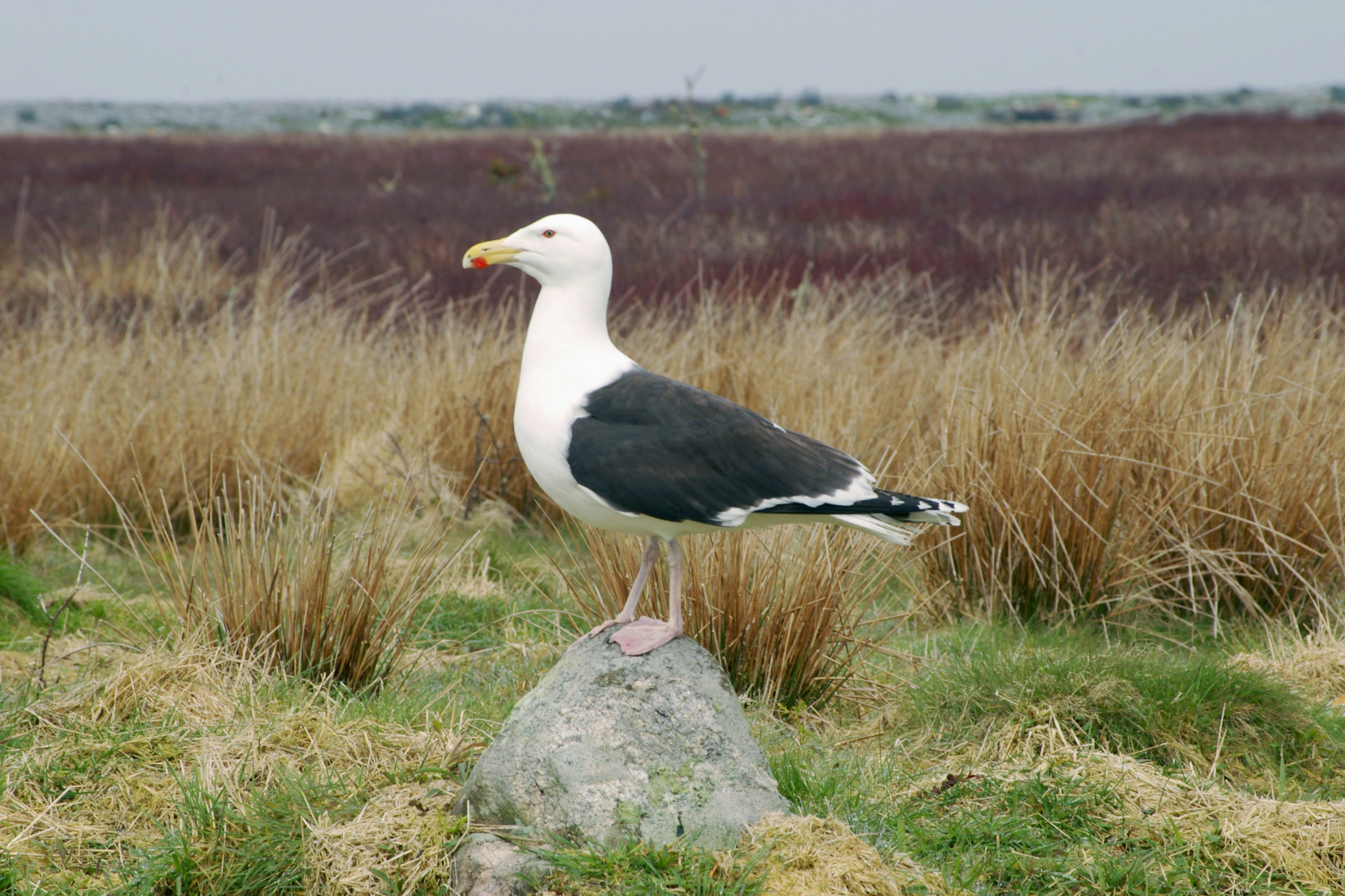 Larus marinus on rock.